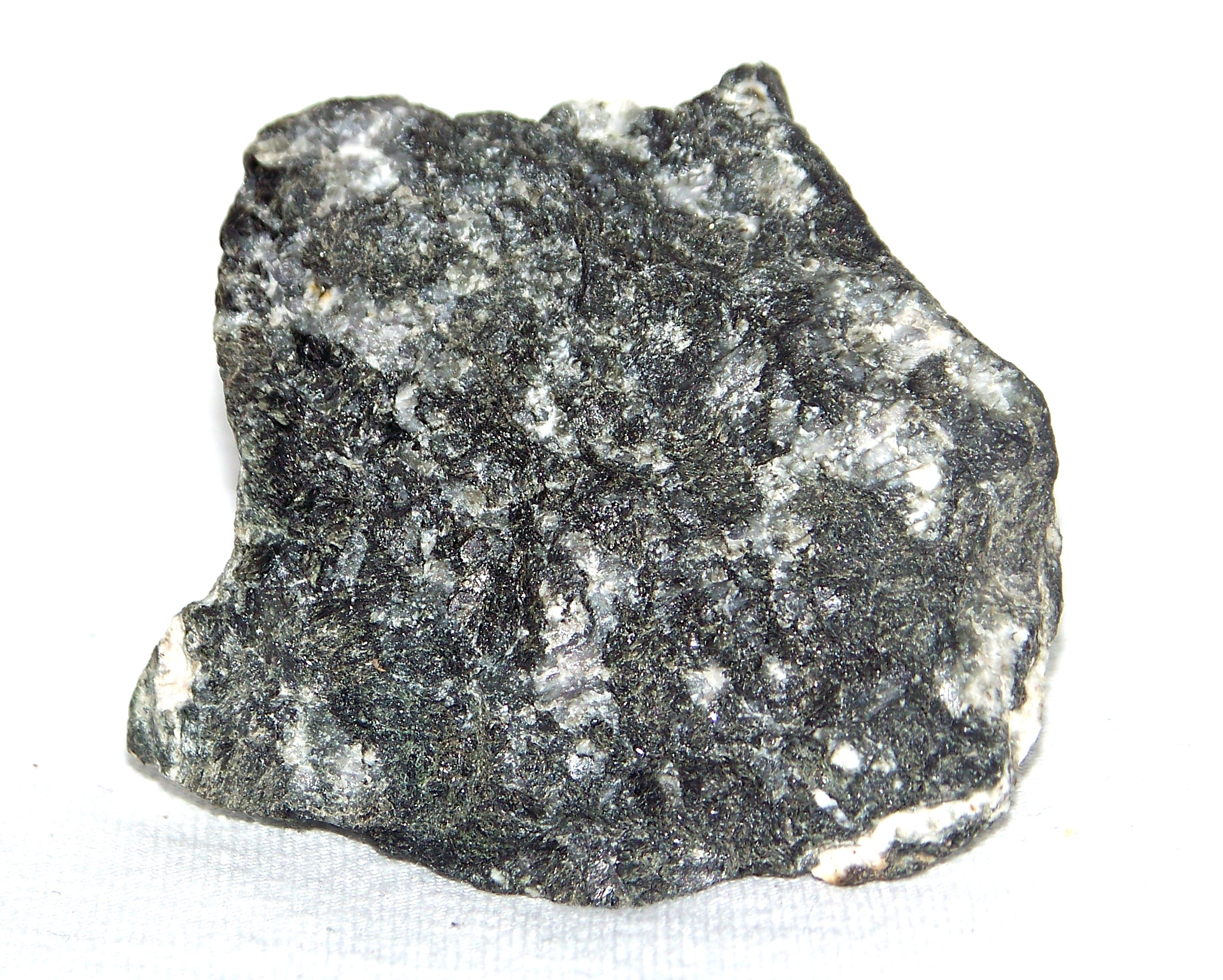 Pyroxenite from Sobótka, near Wrocław, Lower Silesia, Poland